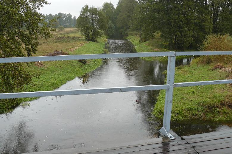 Grabia River in Lask.